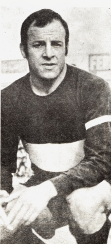 This is a photograph of Alfredo Rojas taken during his time with Boca Juniors in Argentina. He played his last game for the club in 1969